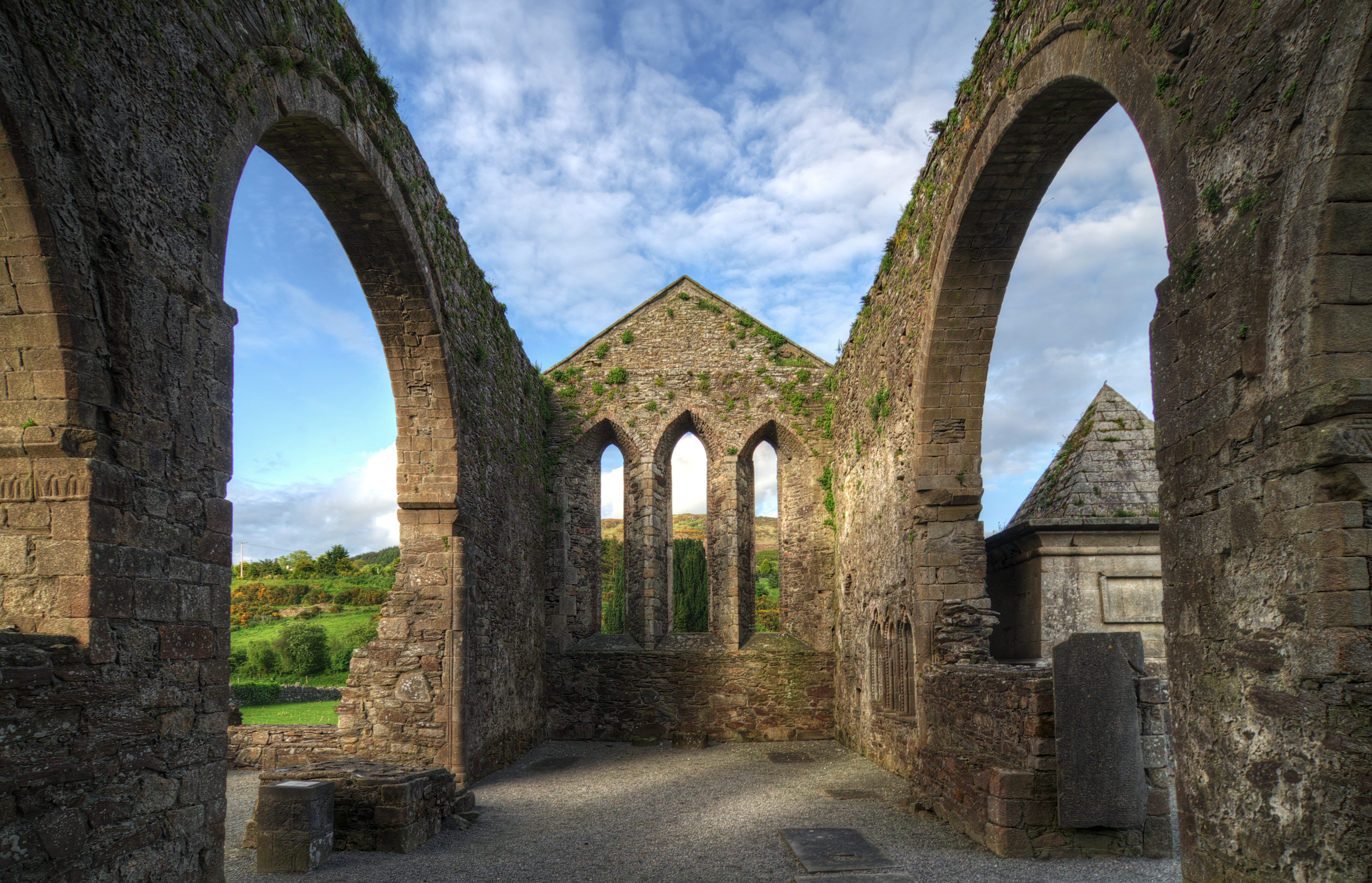 The nave of the church in Baltinglass Abbey, showing the archways either side. The pyramidal tomb of the Stratford family can be seen at right.